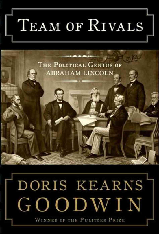 Book cover for the 2005 book by Doris Kearns Goodwin Team of Rivals: The Political Genius of Abraham Lincoln. Cover uses an engraving by A. H. Ritchie; information about the engraving available here.